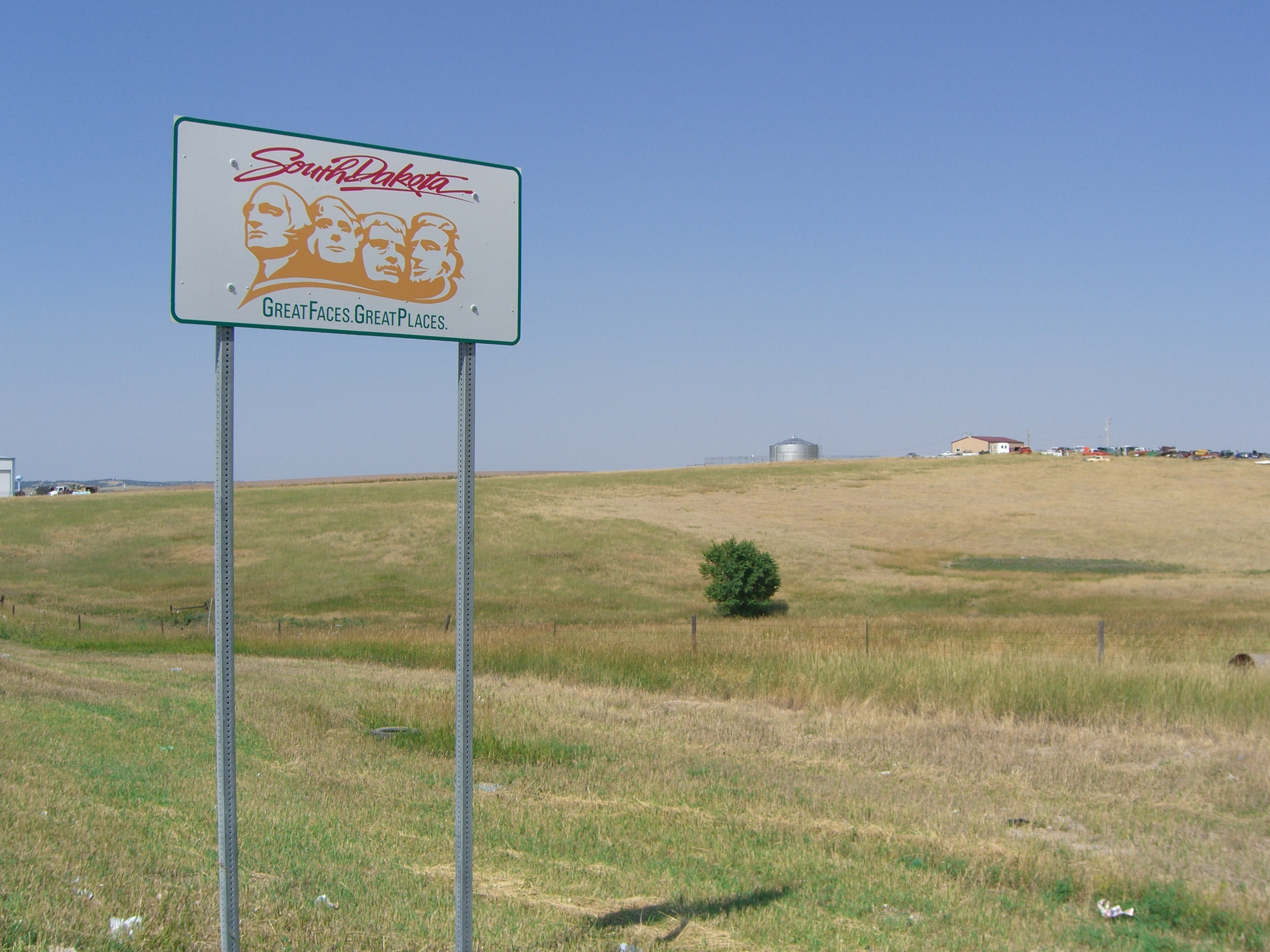 Welcome to South Dakota sign as seen from Nebraska